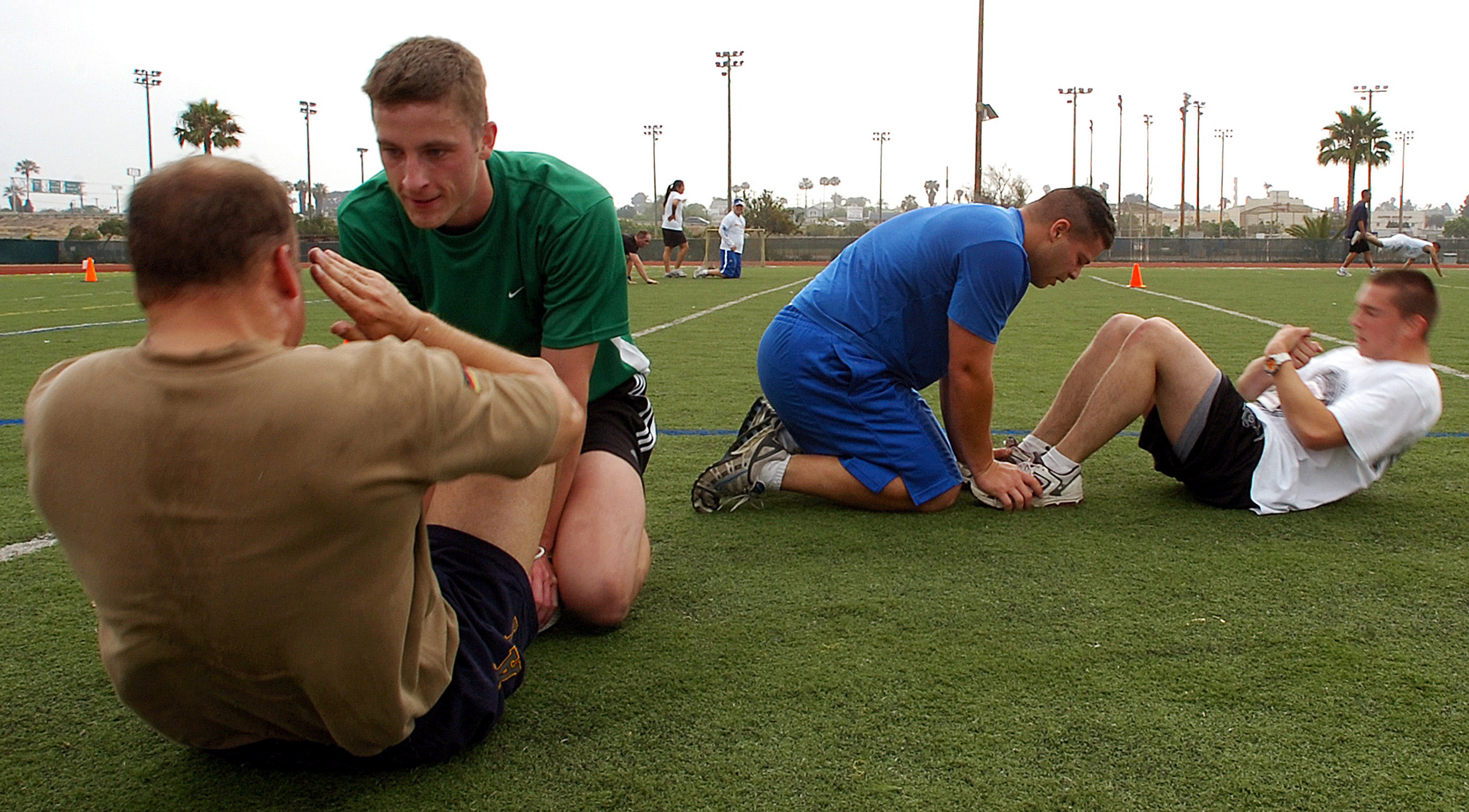 SAN DIEGO (June 15, 2007) - Sailors take turns completing a total of 60 sit-ups during the Naval Base San Diego and Navy Region Southwest Moral, Welfare and Recreation (MWR) 2nd Annual Backyard Fitness Challenge. The event, comprised of two person teams who compete in a 3-mile run, 100-yard wheelbarrow race, 60 push-ups and 60 sit-ups, lets Sailors have fun while still getting a physical workout. U.S. Navy photo by Mass Communication Specialist 2nd Class Stephanie Tigner (RELEASED)